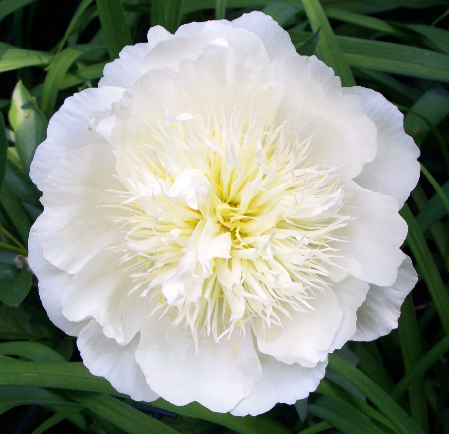 Paeonia lactiflora Barrington Bride